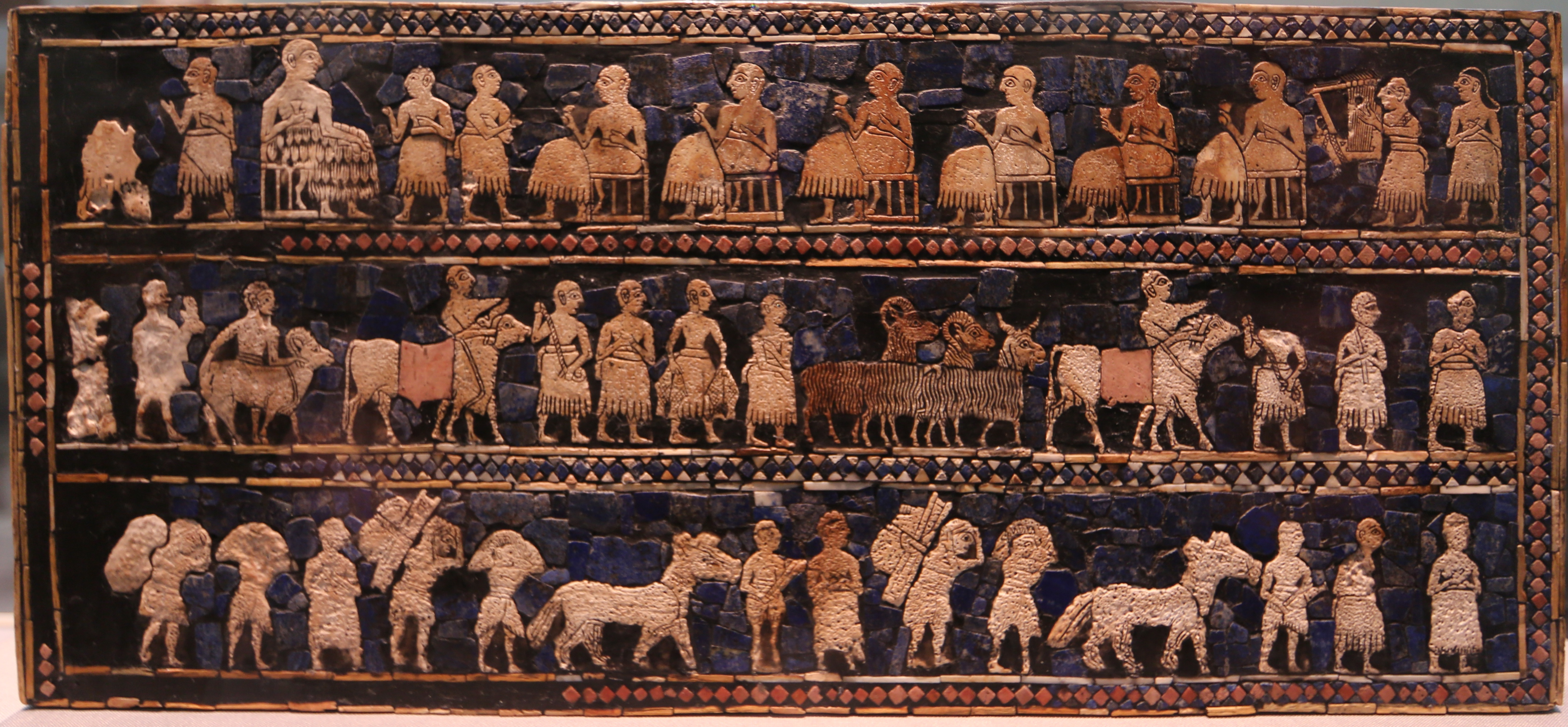 Photo of the peace panel of the standard of ur